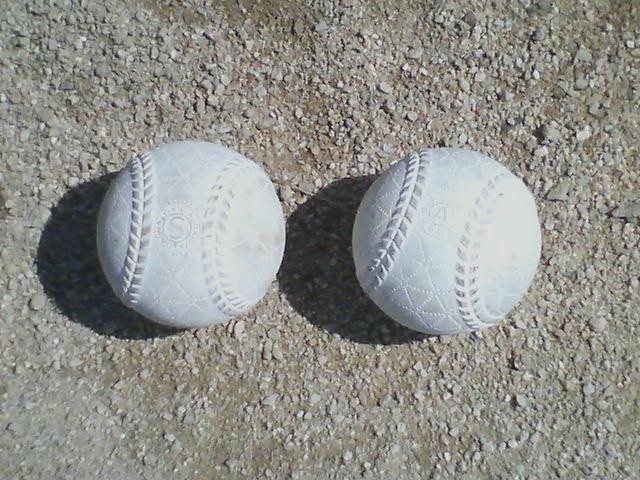 New recognition balls of rubber baseball (since 2006)